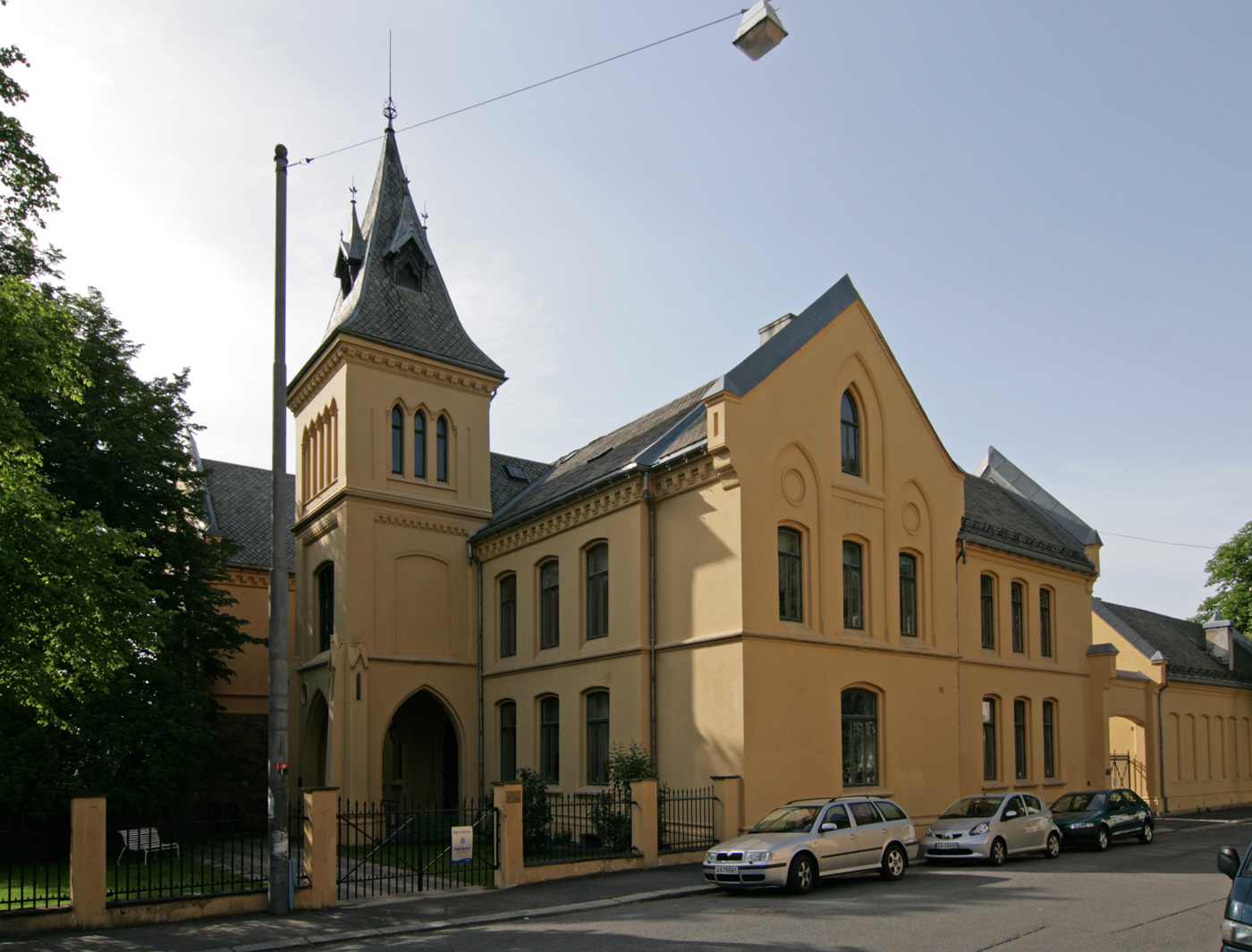 Oslo episcopal residence.